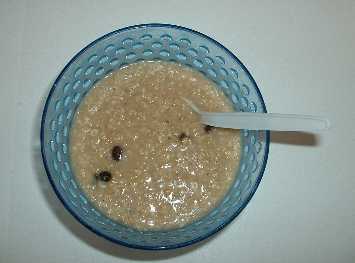 Oatmeal and raisins, after being cooked. Taken by User:CryptoDerk on January 20, 2005.